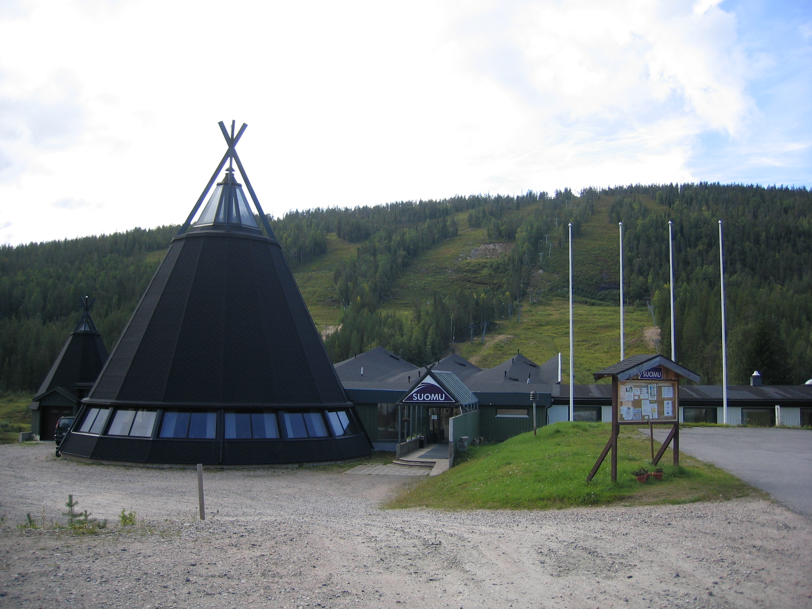 Picture of ski resort Suomutunturi (at summertime), picture also shows hotel in front of the fell. The hotel was destroyed in fire on 9 October 2015.